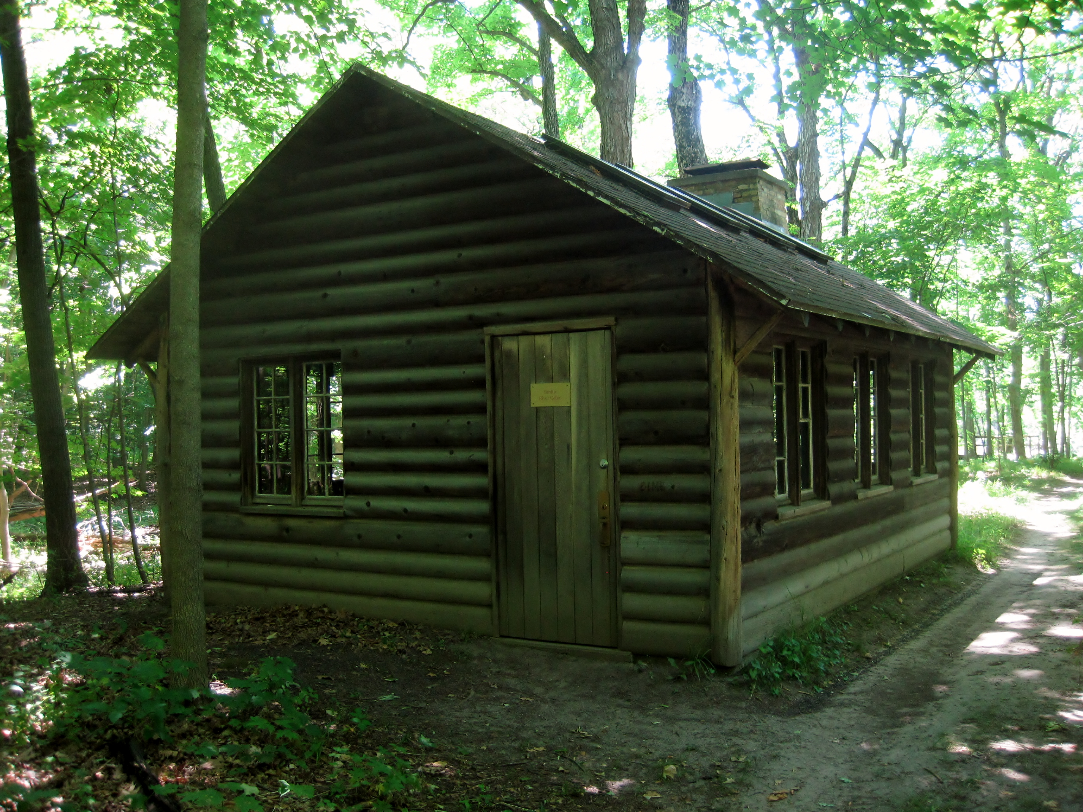 The Hermon Dunlap Smith Cabin in the Edward L. Ryerson Area Historic District in Deerfield (1935). Smith, the vice president of insurance broker Marsh & McLennan, purchased 8 acres on the river in 1935. He was also the president of the Newberry Library and the Chicago Historical Society, and a trustee at the University of Chicago. His wife founded the Womens' Board at the Field Museum and was chairmen of the board at Hull House. Smith so enjoyed his cabin that he published a book on the Des Plaines River.